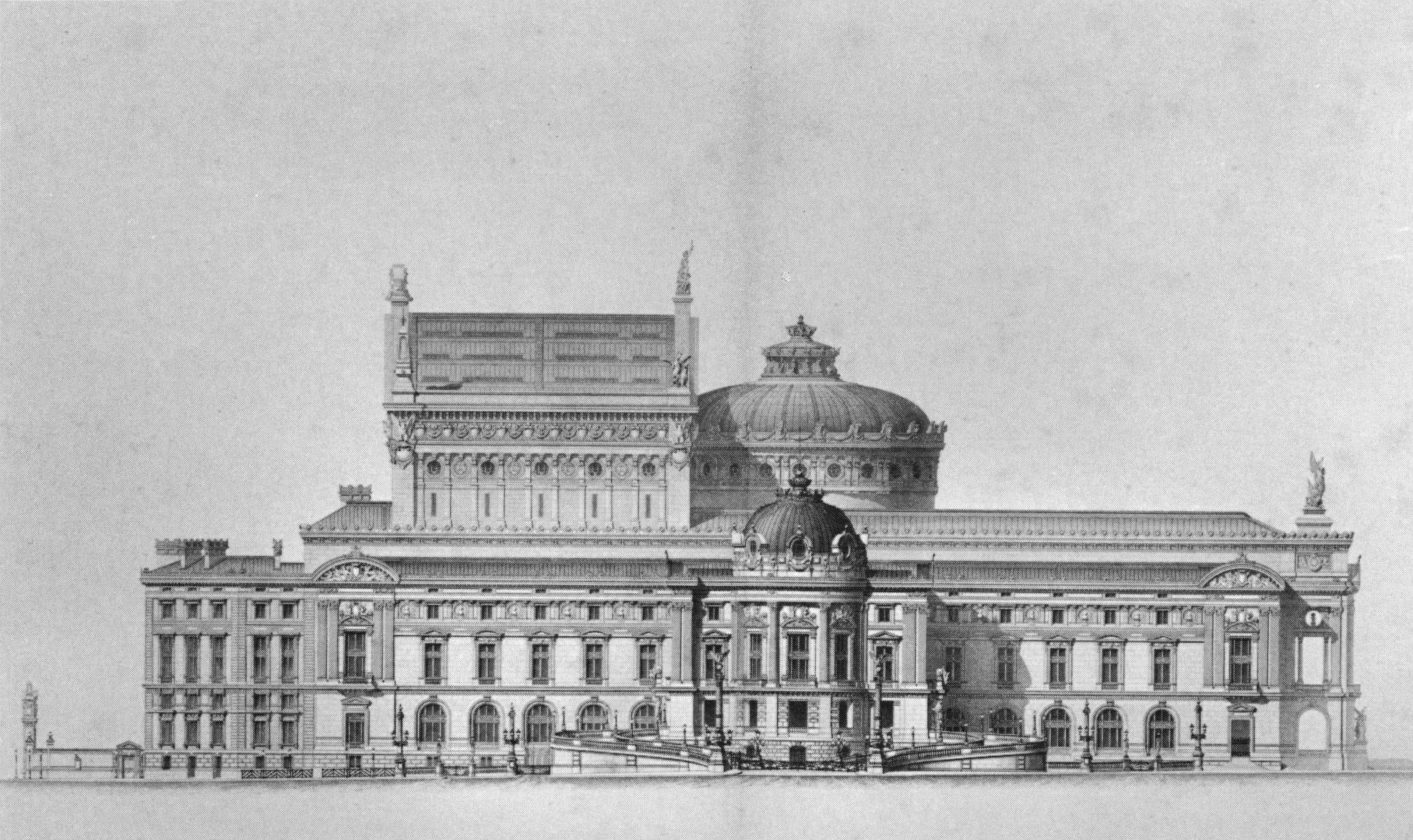 Elevation of the west lateral facade (with the Pavillon de l'Empereur) of the Paris Opera's Palais Garnier